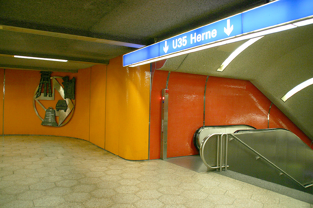 Subway Bochum, Germany, station "Hauptbahnhof" (Main station) author: Elke Wetzig (elya) date: 2005-08-20